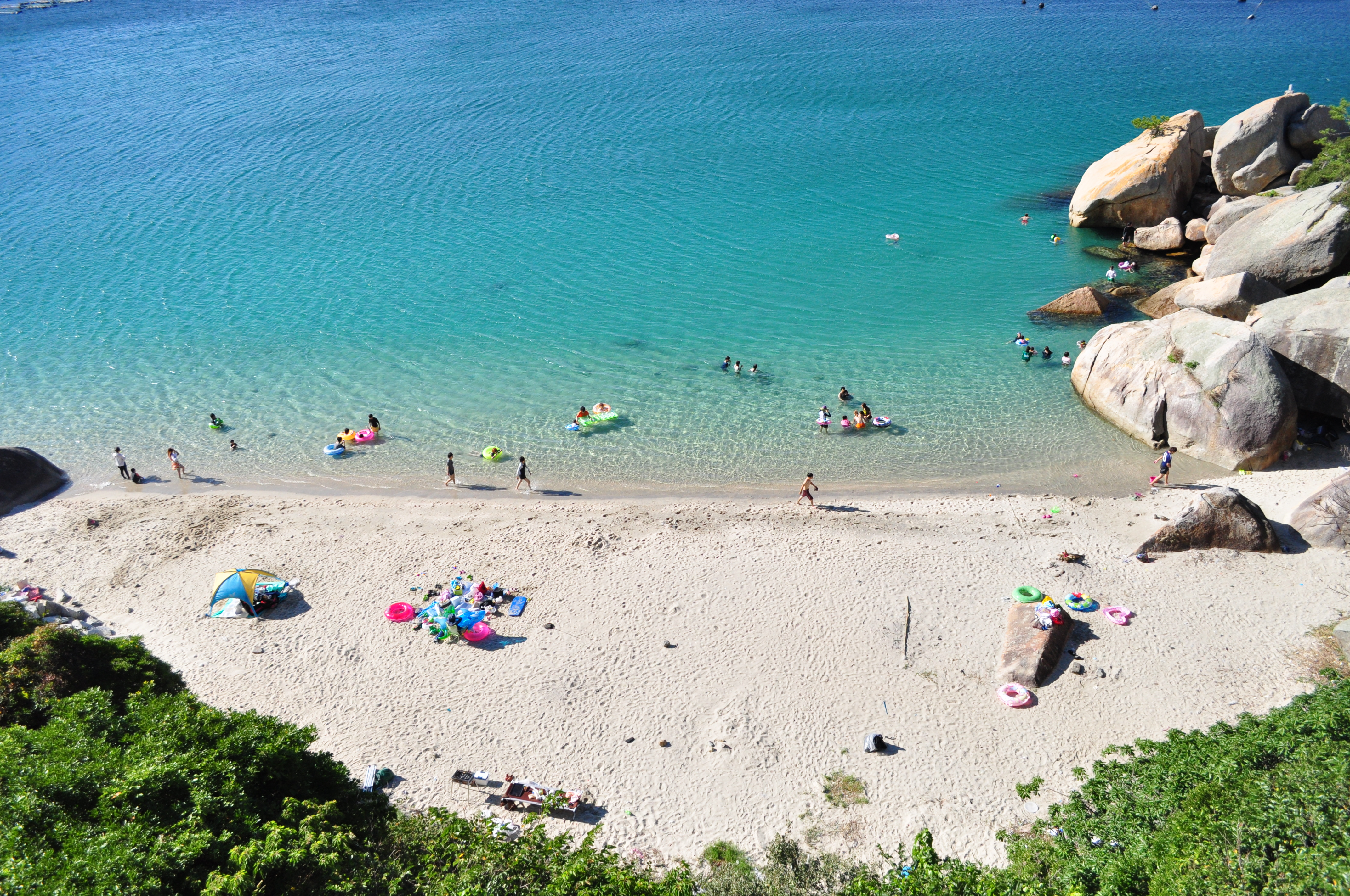 Shirahama (白浜), a popular swimming and BBQ spot, just before Kashiwajima Island, Otsuki Town, Kochi Prefecture.